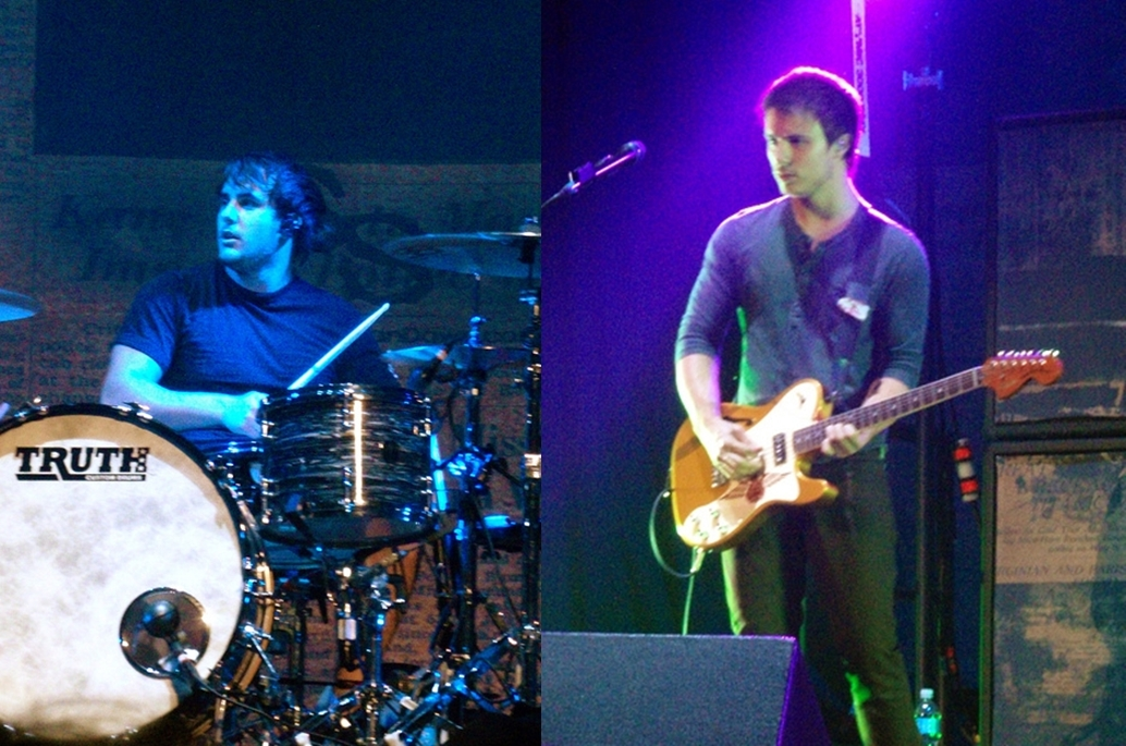 Paramore opening for No Doubt @ General Motors Place in Vancouver, BC. 7/18/2009